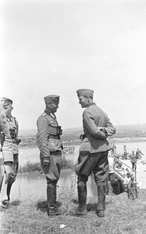 General der Infanterie Joachim von Kortzfleisch (R) and Oberstleutnant Hans von Ahlfen (L) supervising the building of a pontoon bridge across the Prut River in Romania by units of the 11th army (Heeresgruppe Süd) during the advance towards Uman.